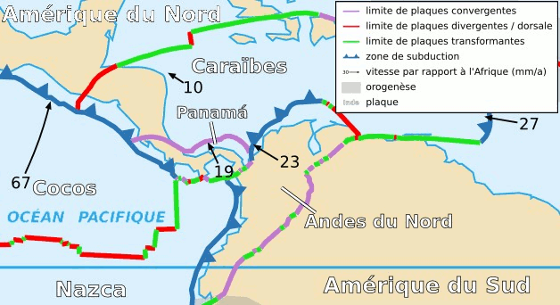 Map of the Panama Plate